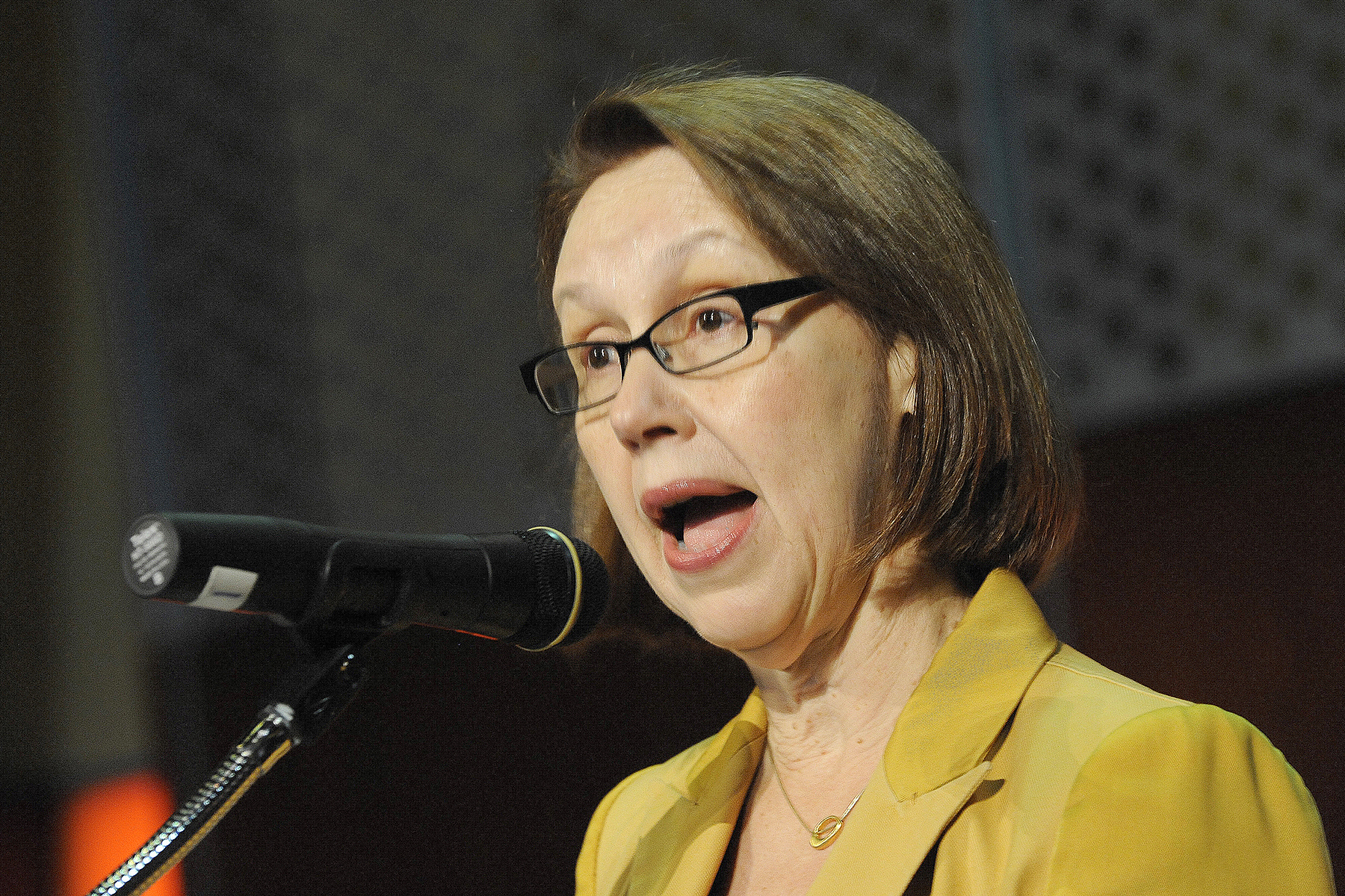 Oregon Attorney General Ellen Rosenblum addresses attendees at the conference.